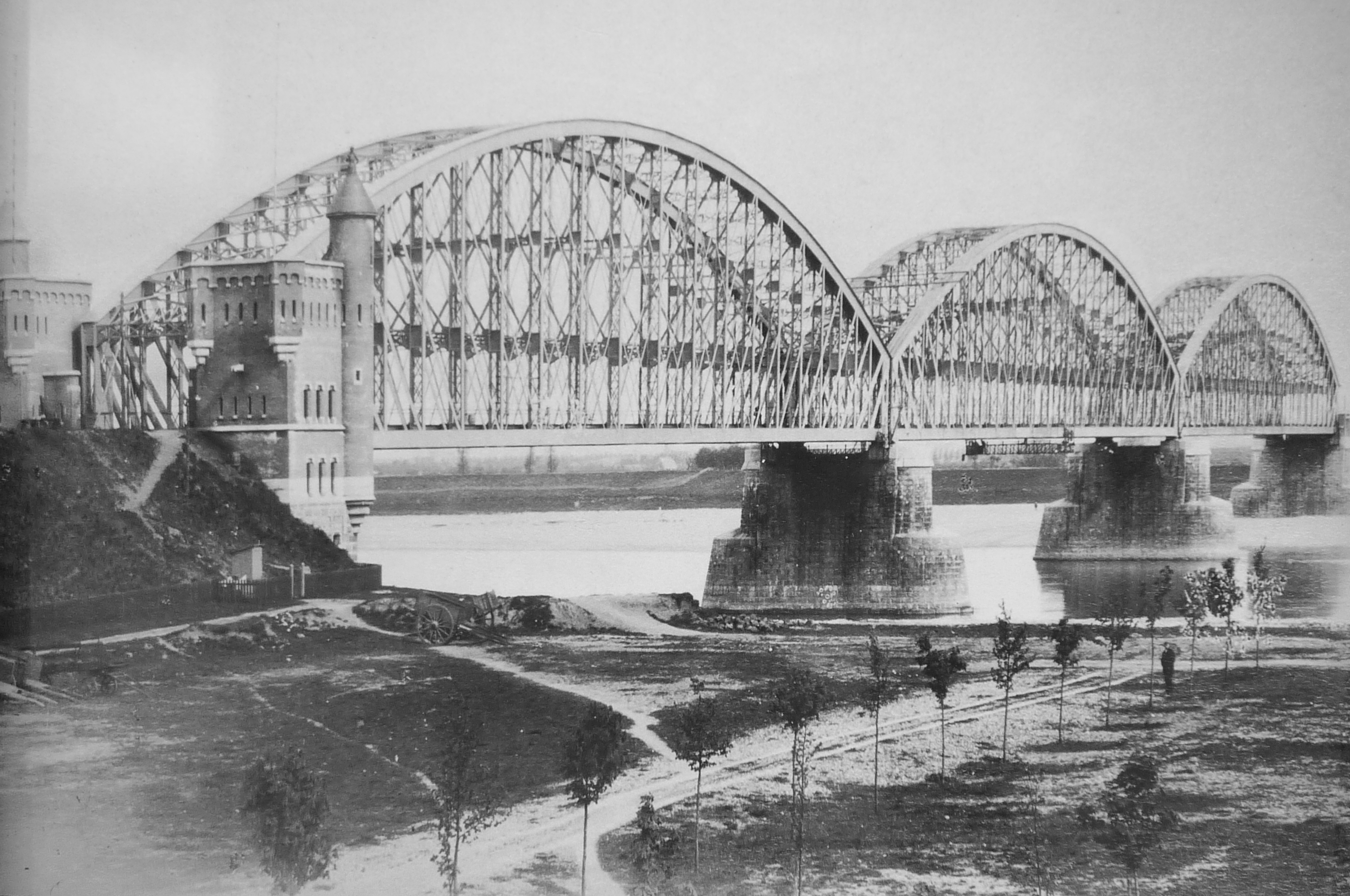 Nijmegen railway bridge over the Waal, built 1875-1879